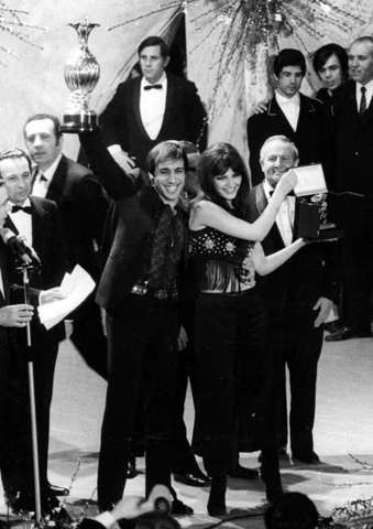 Adriano Celentano and his wife Claudia Mori win the 1970 Sanremo Music Festival with Chi non lavora non fa l’amore